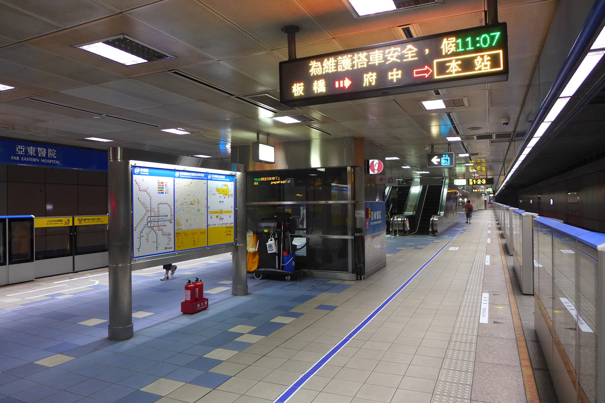 Far Eastern Hospital Station Platform